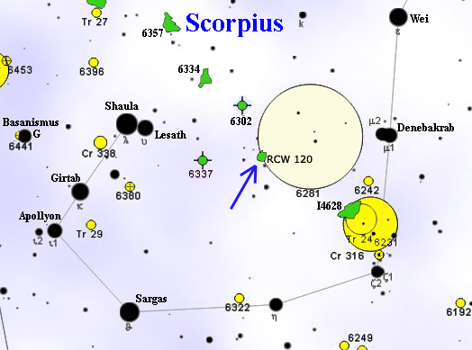 Map of RCW 120